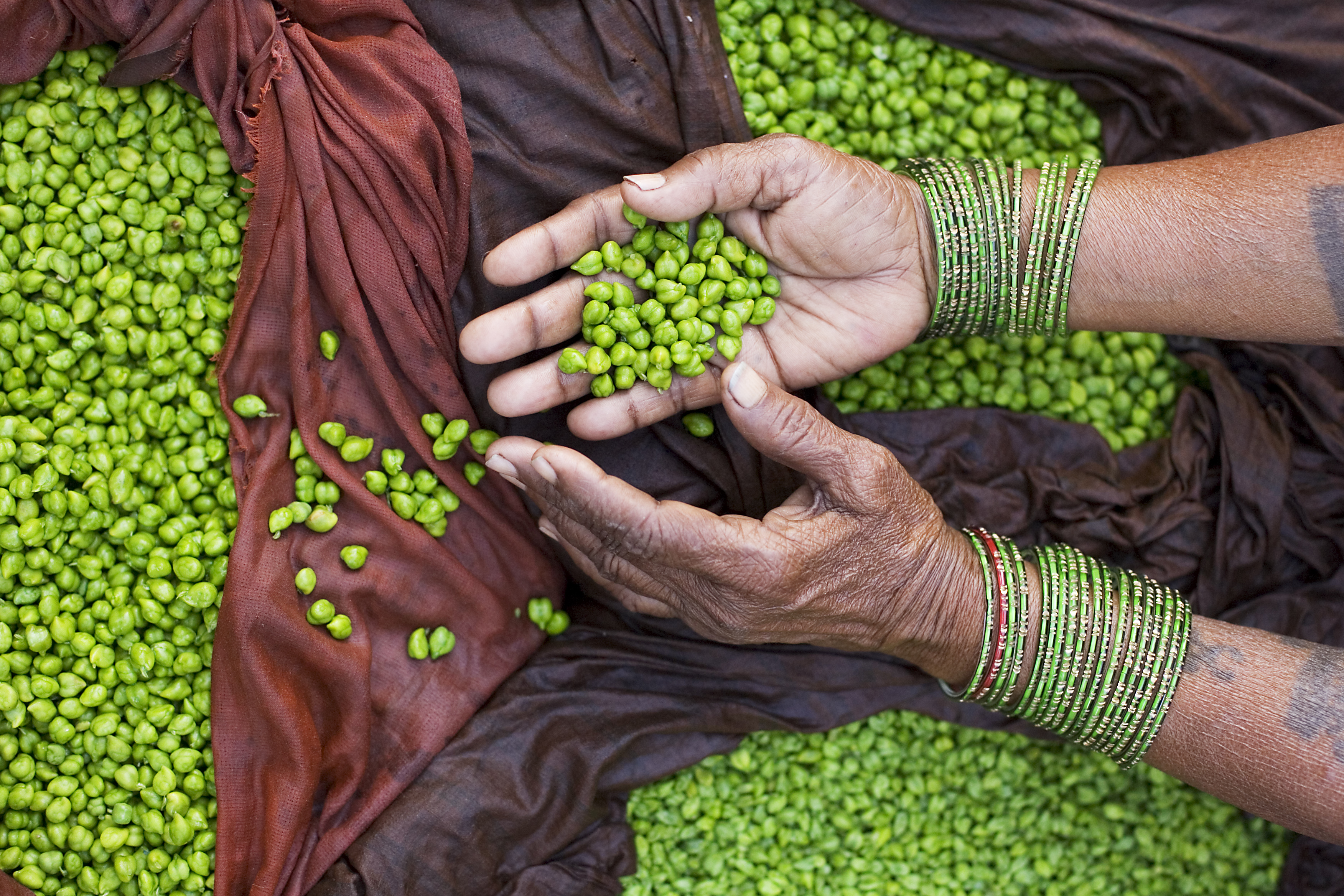 An Indian merchant holds a pile of green chickpeas which stand out brightly against her skin.